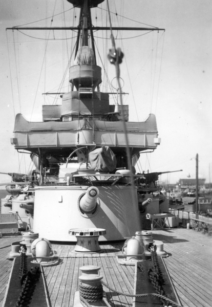 View from front of the Swedish coastal battleship HMS Manligheten.